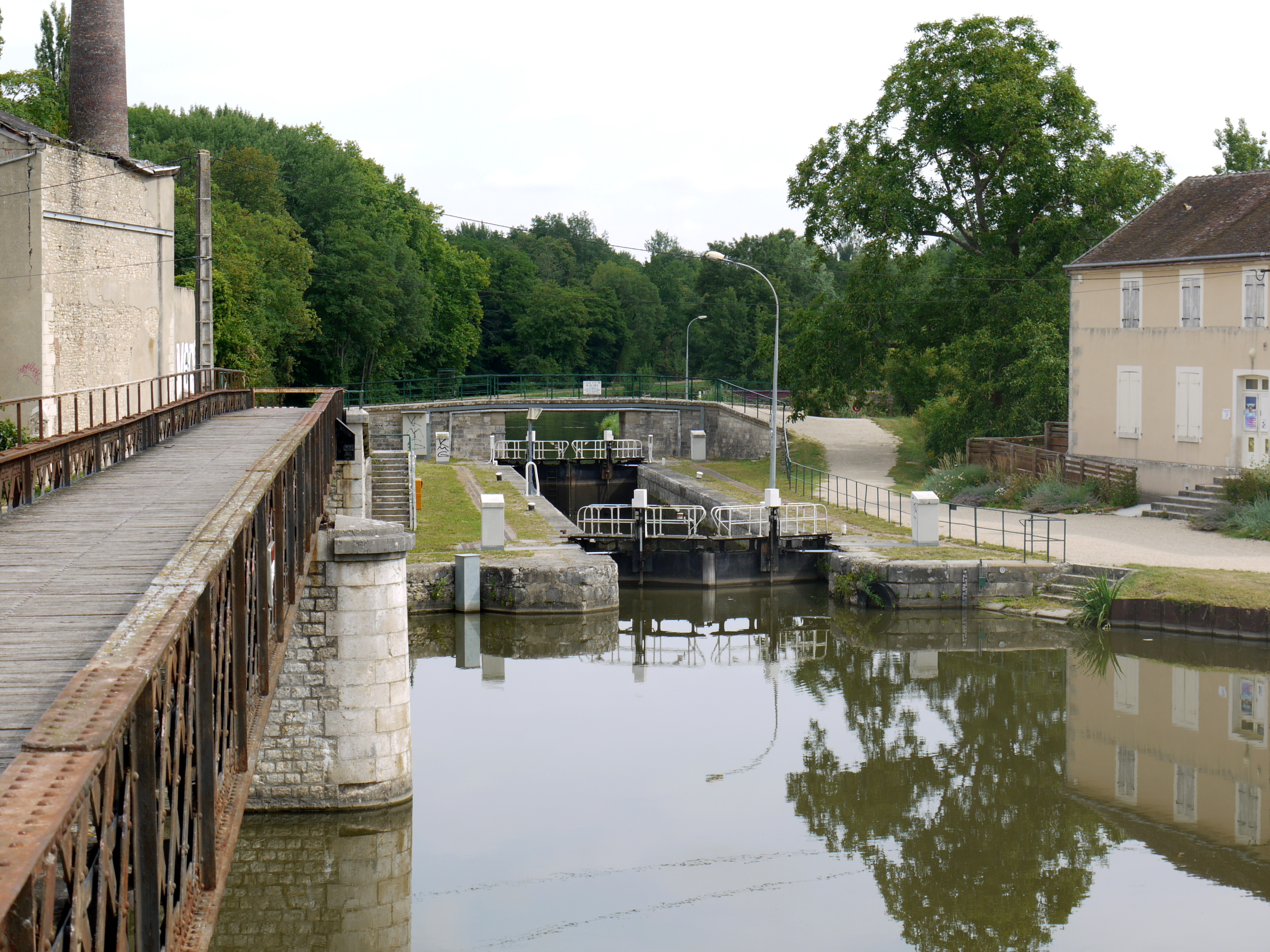 Junction between the canals Briare, Orleans and Loing in the hamlet of Buges ( Corquilleroy) near Montargis, France